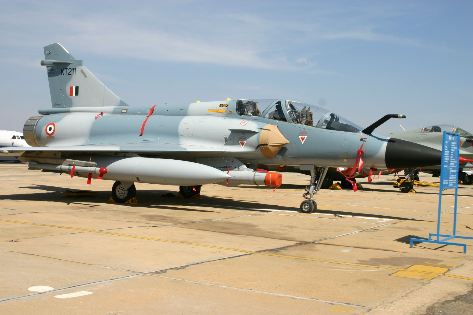 At Bangalore Yelahanka Air Force Base